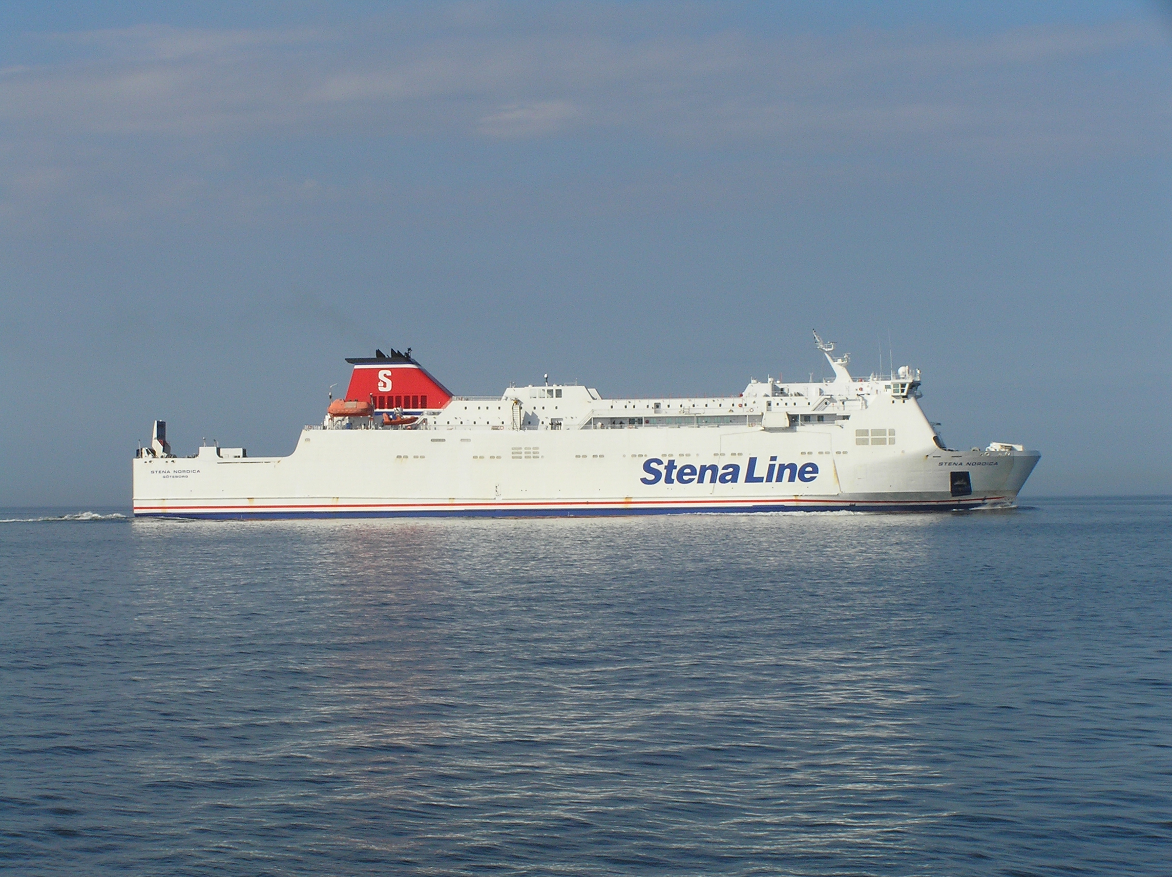 Ferry MF Stena Nordica on the Baltic Sea